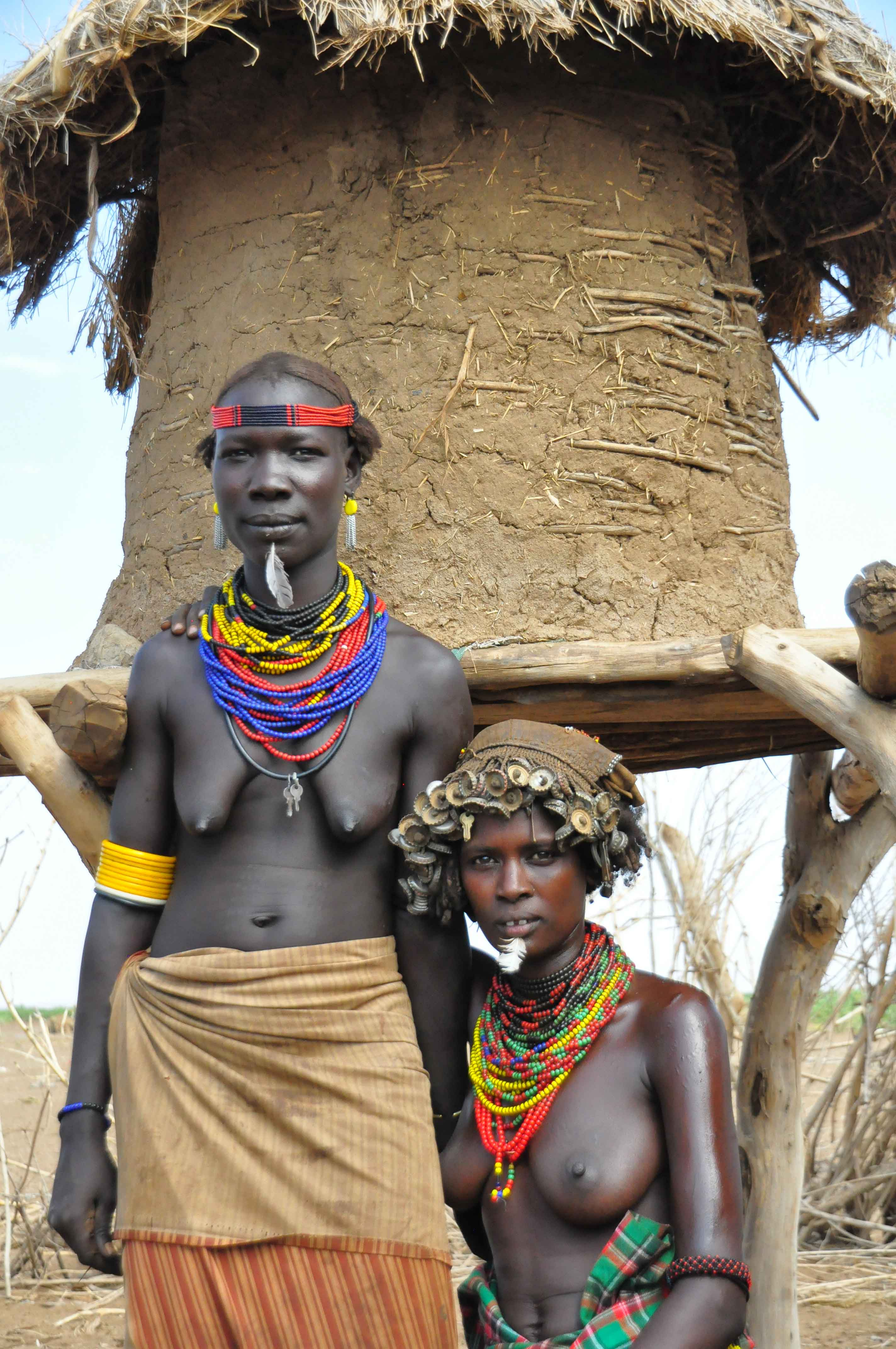 Omo Valley, Dassanech Tribe, Sorghum Silo. Feathers below the lip.